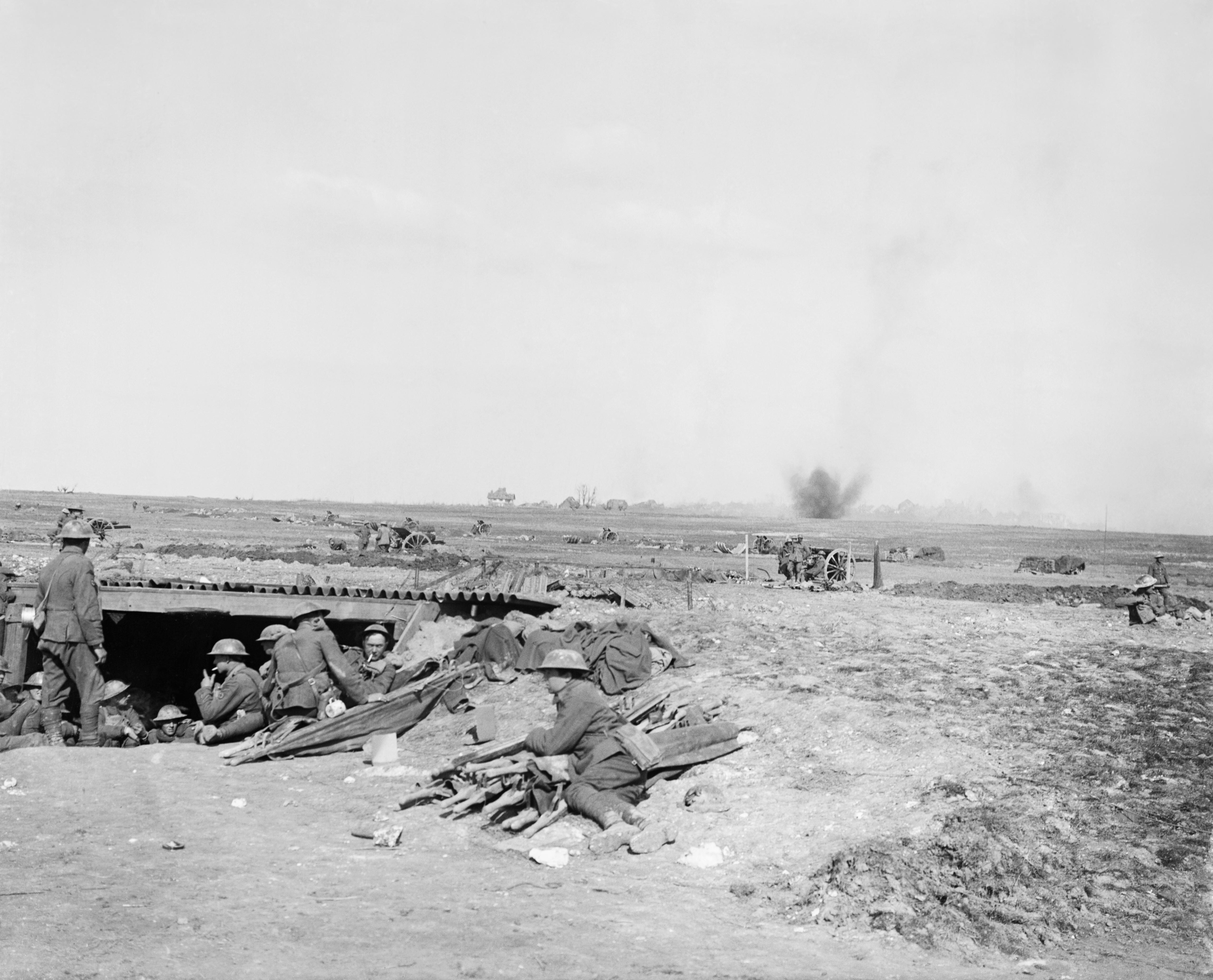 THE BATTLE OF ARRAS 1917 A battery of 18-pounder field guns under German fire close to Monchy-le-Preux. In the foreground is an advanced dressing station. Comment : This photograph shows gunners in action in the Second Battle of the Scarpe.